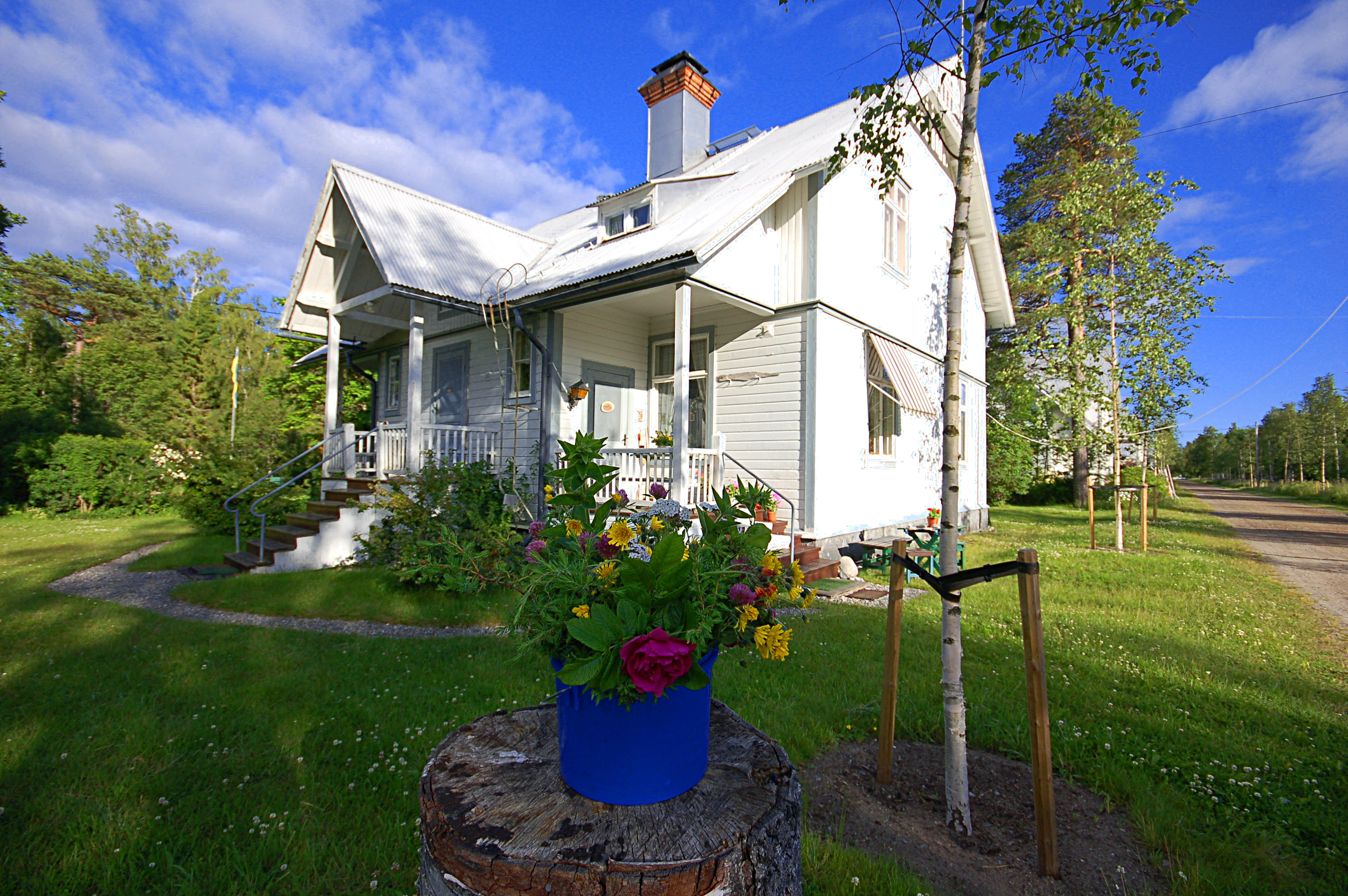 Sawmill workers home at Långgrundsgatan, Norrbyskär, Sweden.